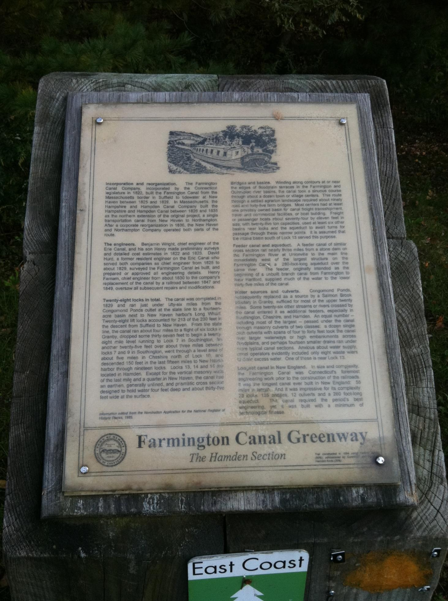 Hamden near Sherman Ave